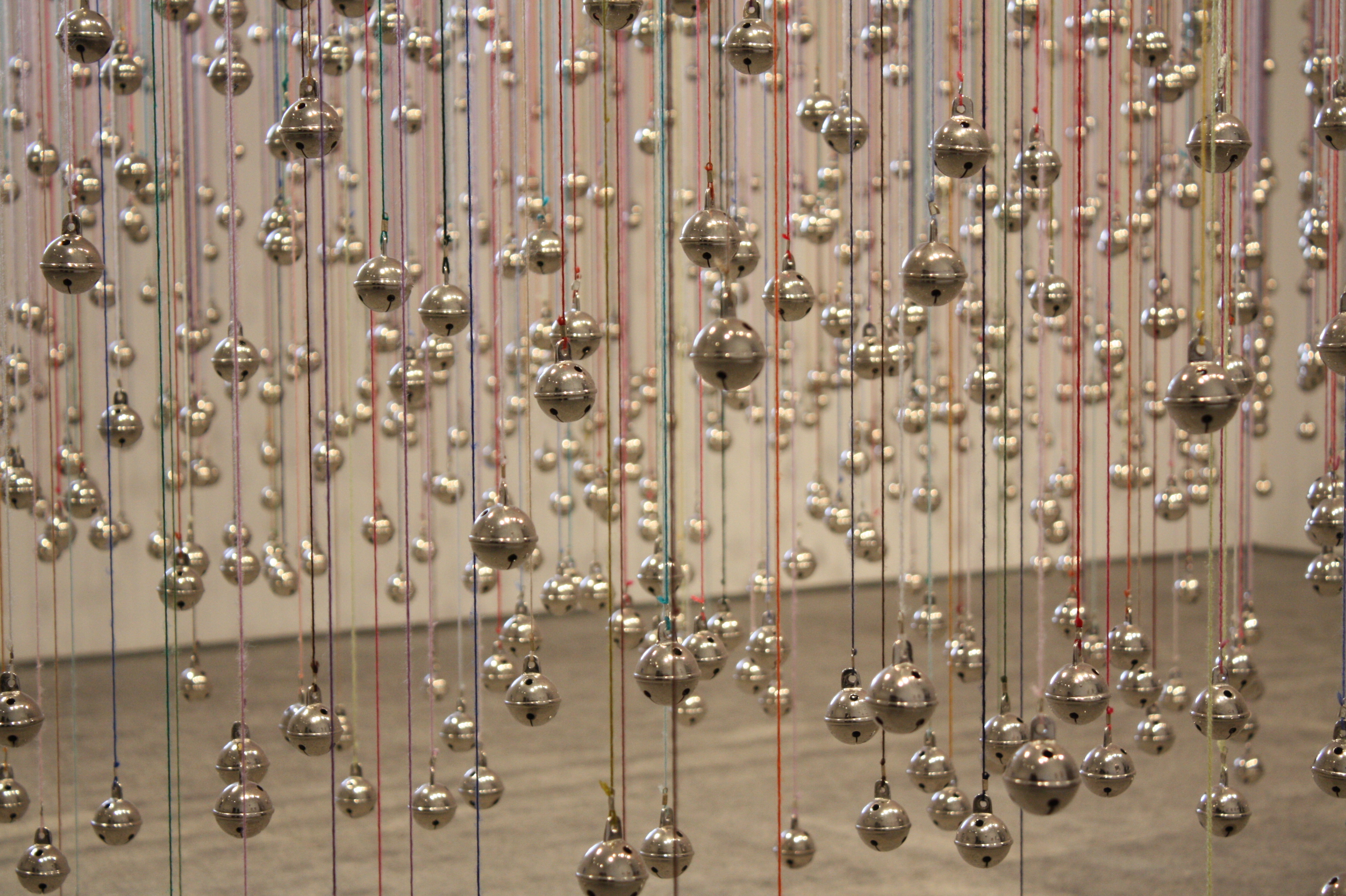 Museum Museo "Reina Sofia" Madrid Art Contemporary Picasso Sculpture Strange